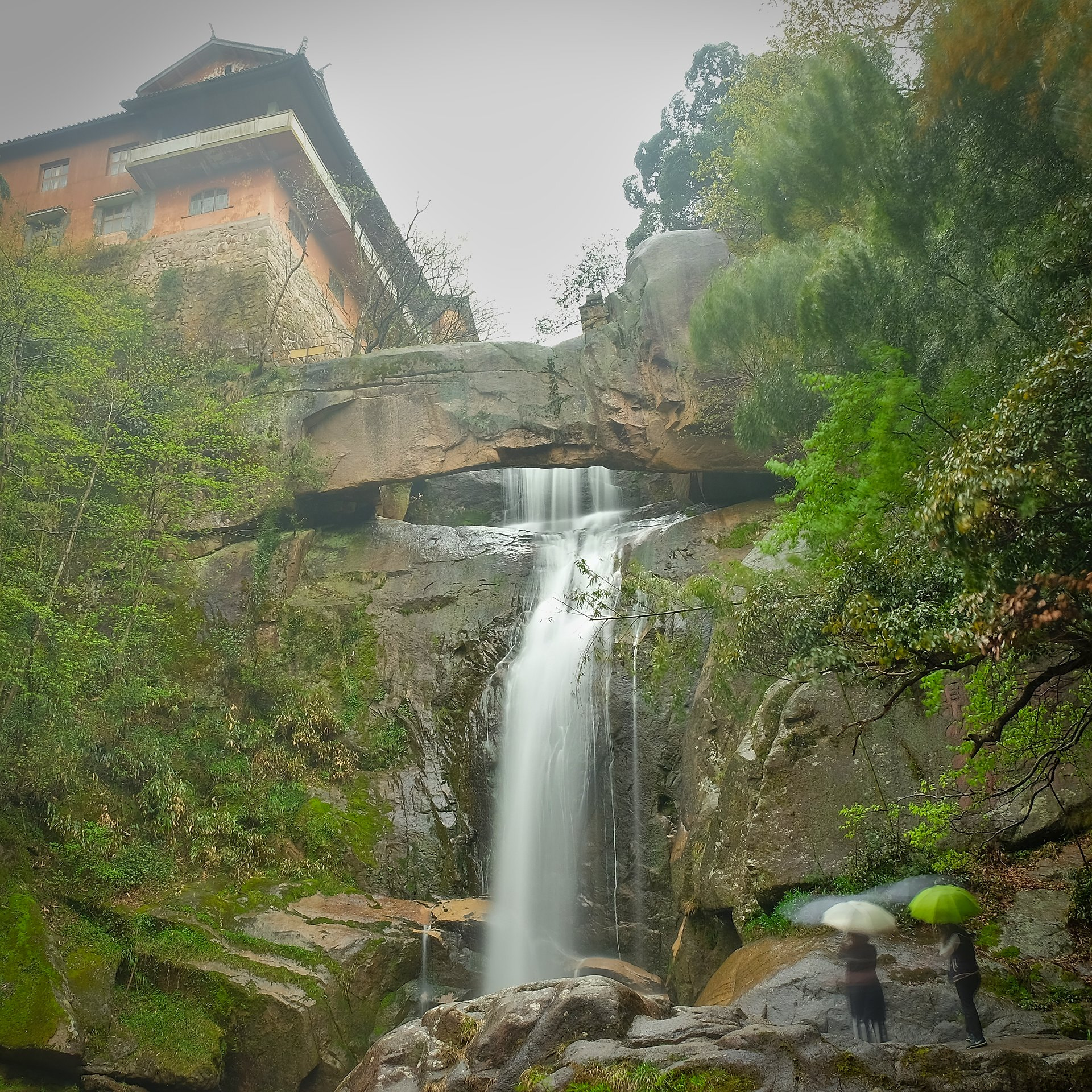 500px provided description: Buddhist monasteries were often located in secluded yet singular places prone to nature contemplation deep in the rainforest. To access the Shiliang waterfall temple, monks needed to conclude a strenuous walk by crossing this natural bridge only about 10 centimeters wide at its narrowest. [#forest ,#rain ,#bridge ,#temple ,#arch ,#waterfall ,#buddhism ,#china ,#rainforest ,#zhejiang ,#tiantai ,#shiliang]